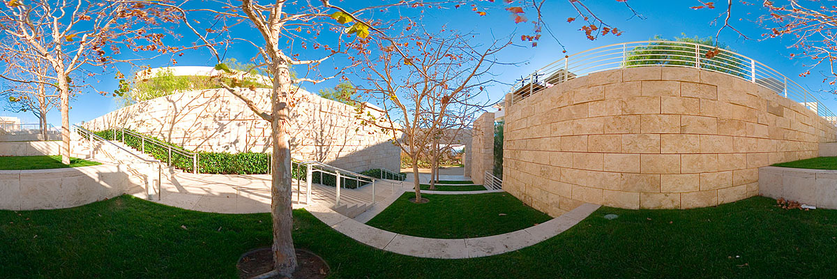 A stairway leading down to the Central Garden, Getty Center. Credits Panorama by Roger Howard